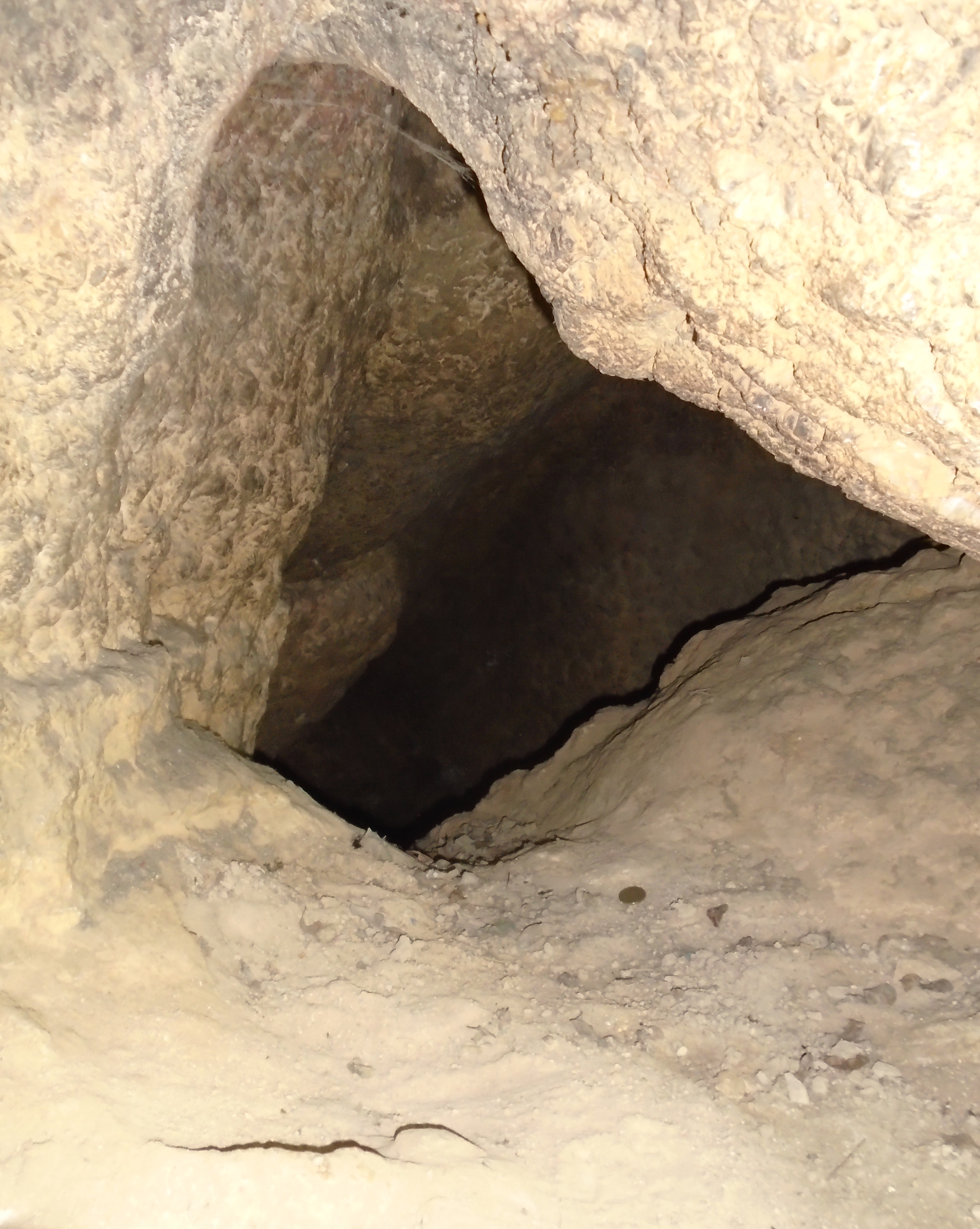 Barit Cave near main entrance.